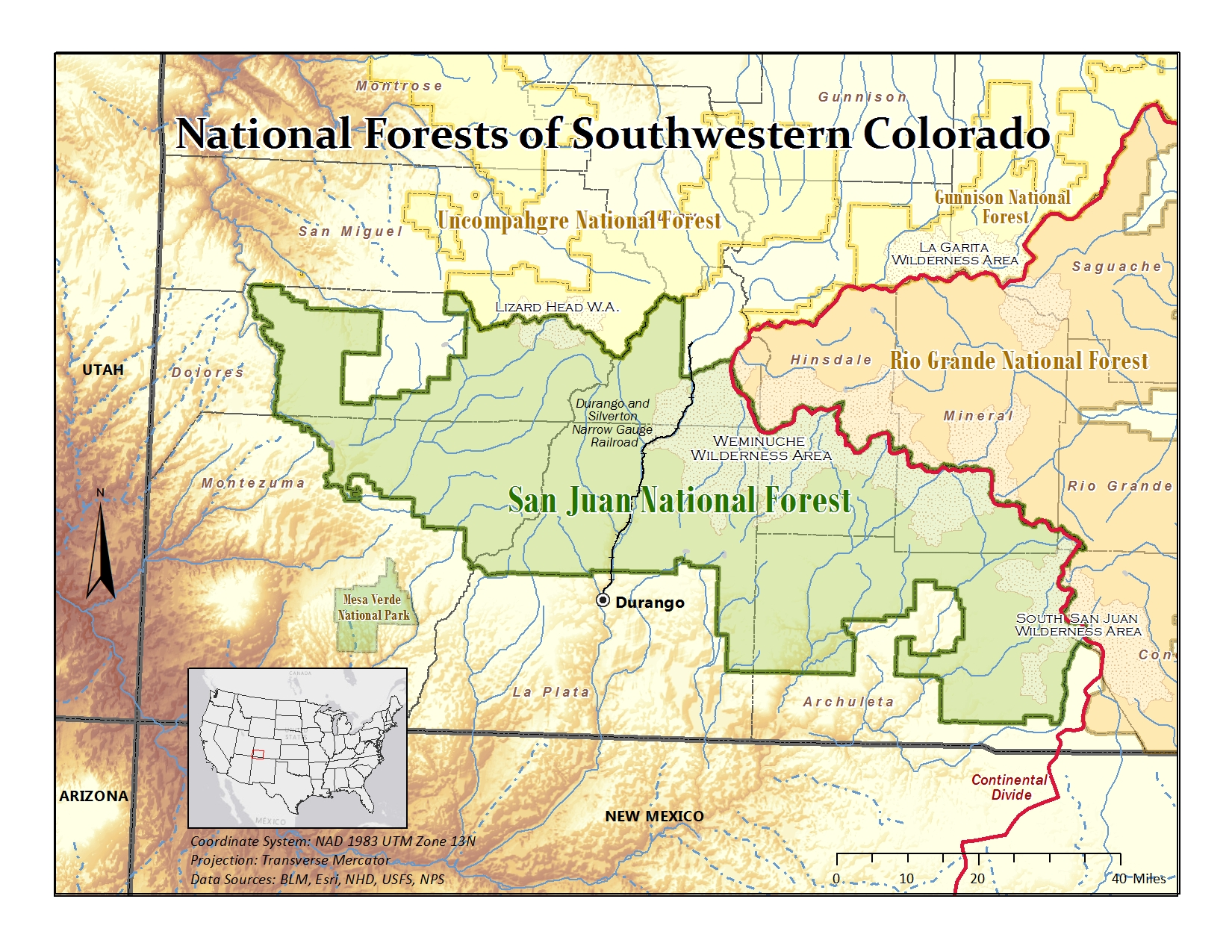 Sources include: BLM (DOI), USFS, NHD (USGS), Esri, NPS Coord/Projection NAD1983 UTM Zone 13N (Transverse Mercator)